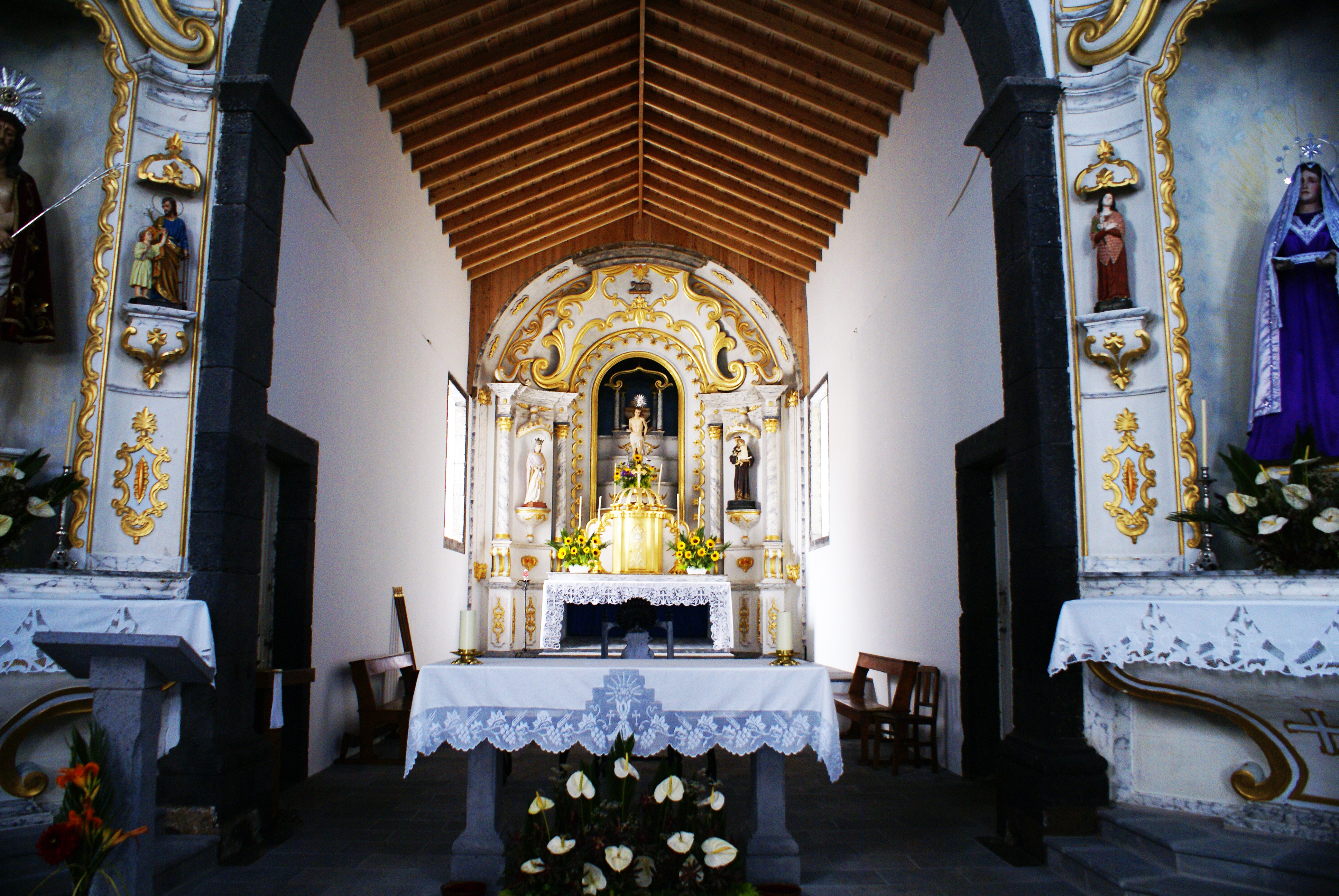 Main alter and sacristy of the Church of São Sebastião, Calheta de Nesquim, Lajes, Pico (Azores), Portugal